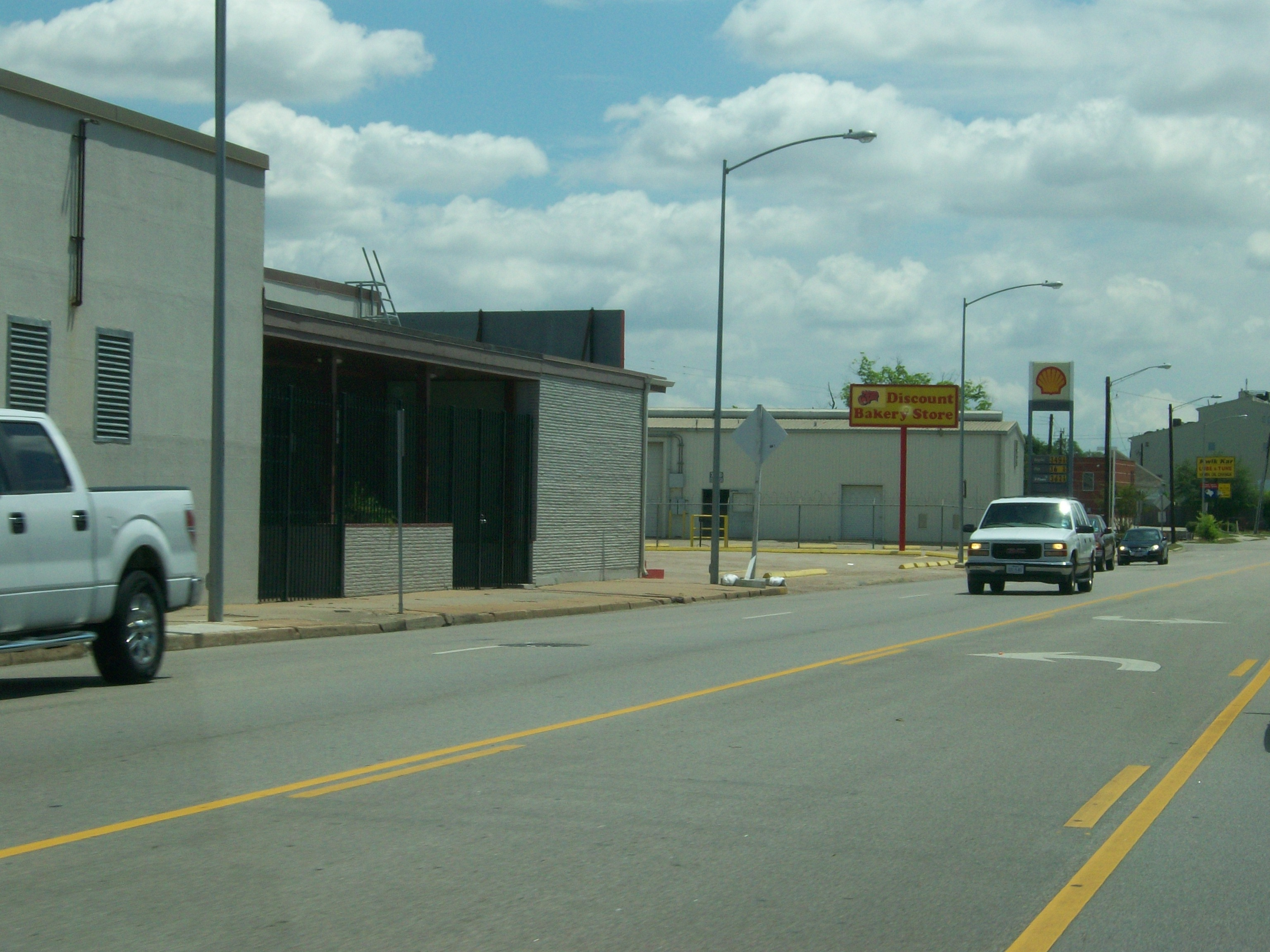 Washington Avenue (Houston, Texas)